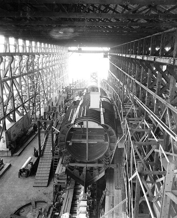 USS Squalus (SS-192) under construction on the building ways at the Portsmouth Navy Yard, Kittery, Maine, 7 January 1938. View looks aft, showing typical cross section of pressure hull and side tanks. Frame 41 lower structure is in the foreground, with Frame 46 upper hull structure beyond.